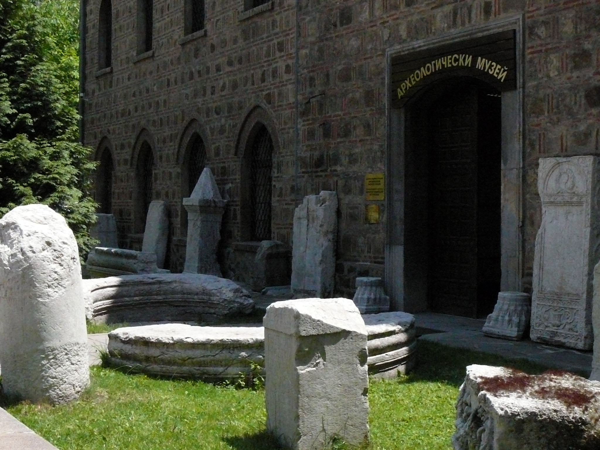 National Archaeological Museum of Bulgaria